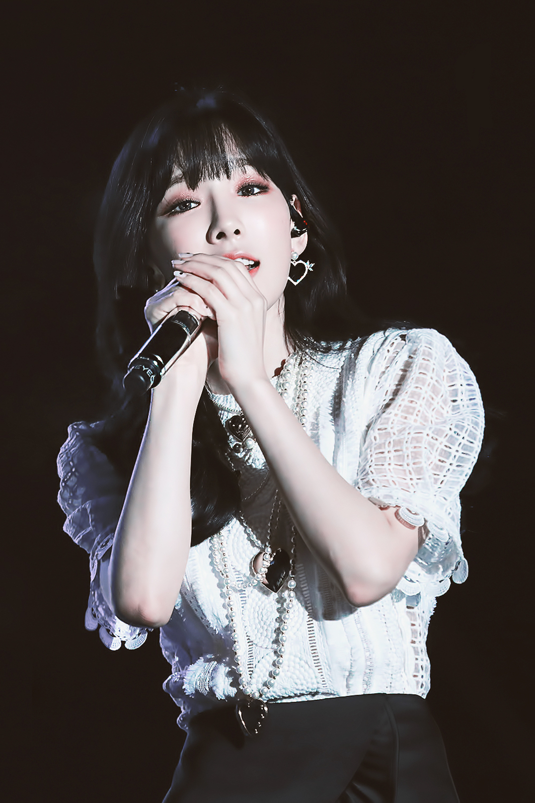 Kim Tae-yeon at Asia Song Festival on September 24, 2017.